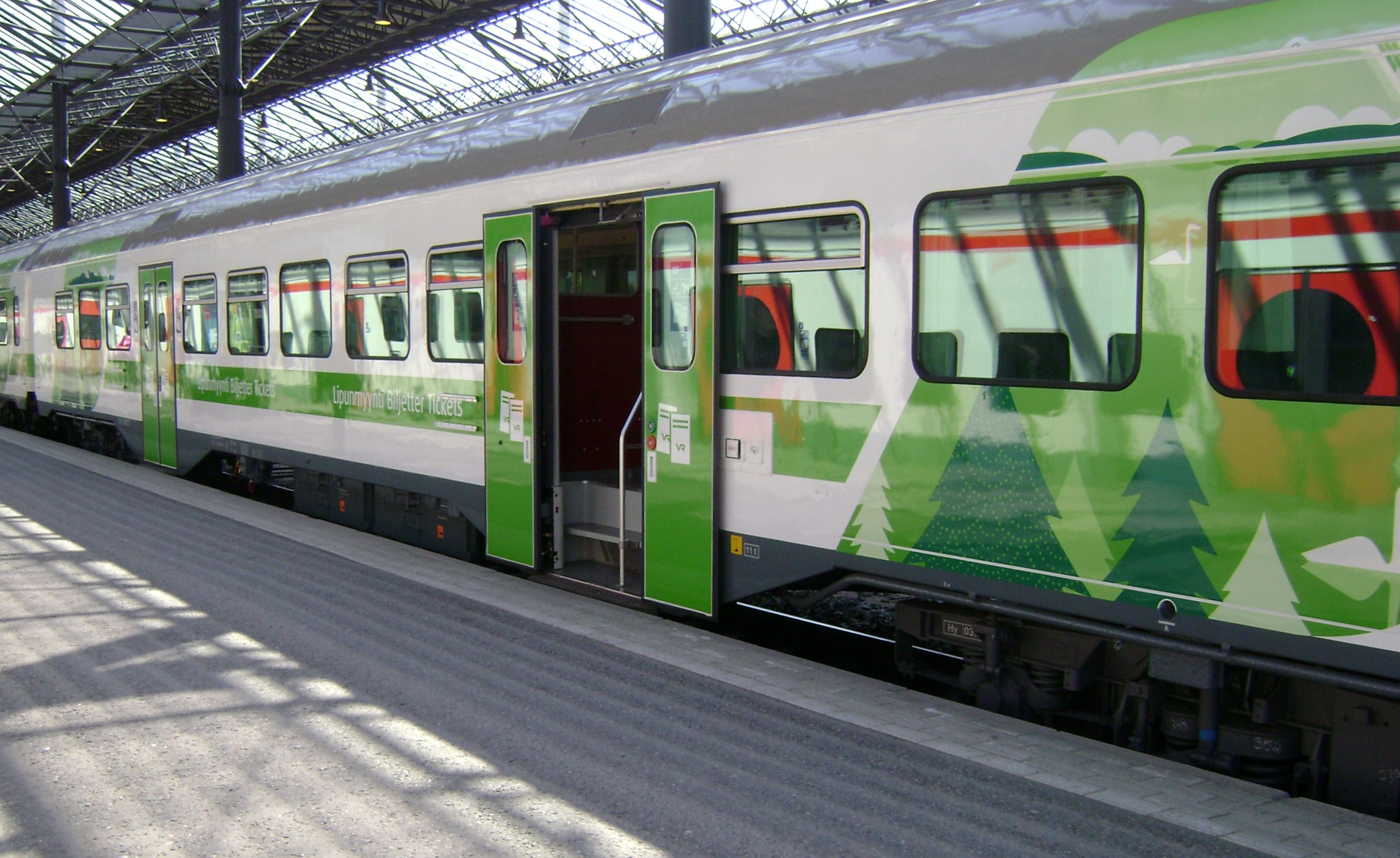 A VR Class Eilf passenger coach with new green livery.